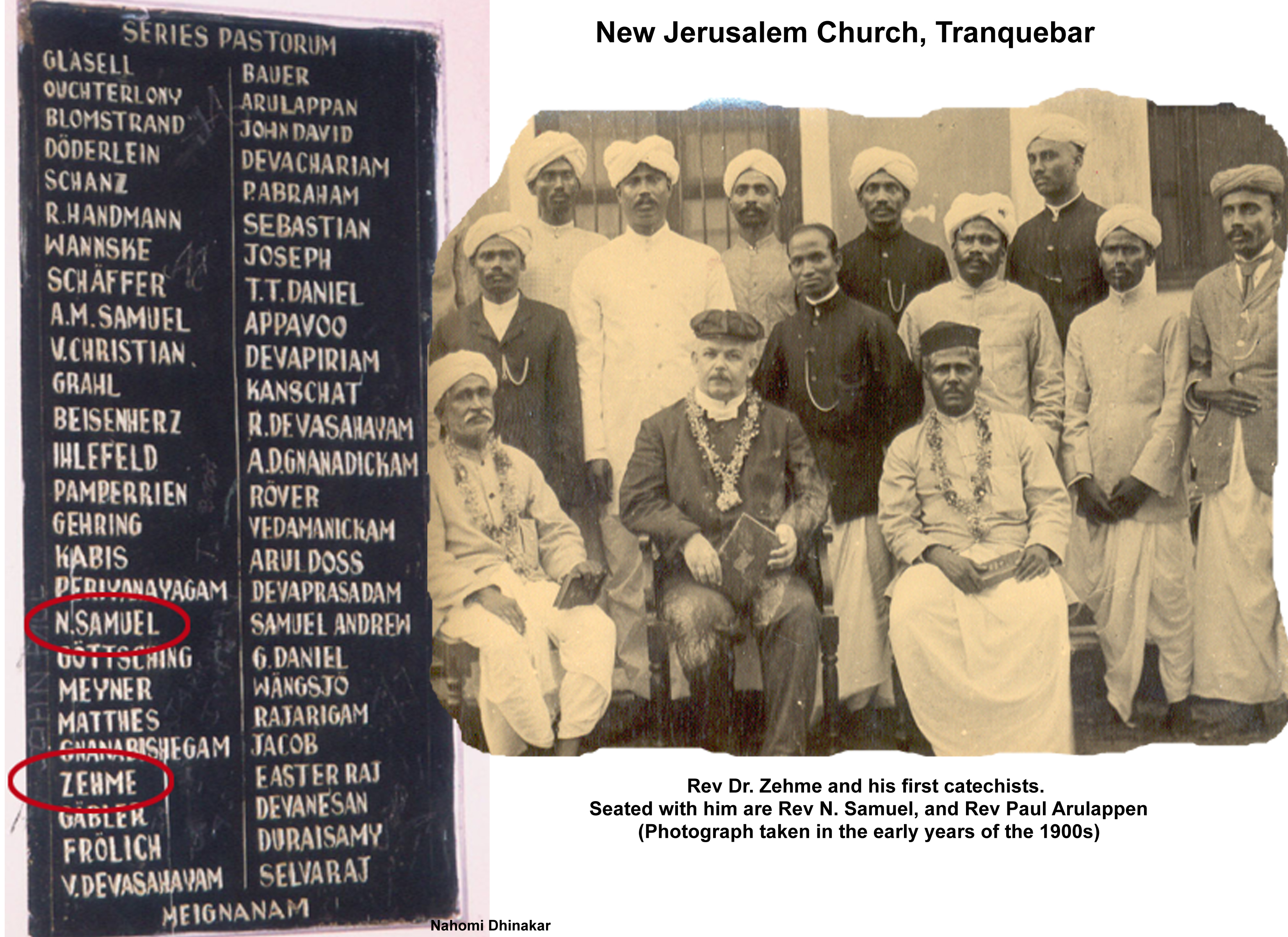 The picture of the Series Pastorum board was taken by me in Tranquebar in May 2004. The other picture of Rev N.Samuel, Rev Dr. Zheme, and Rev Paul Arulappen is an old photograph from family archives. I arranged these pictures together.